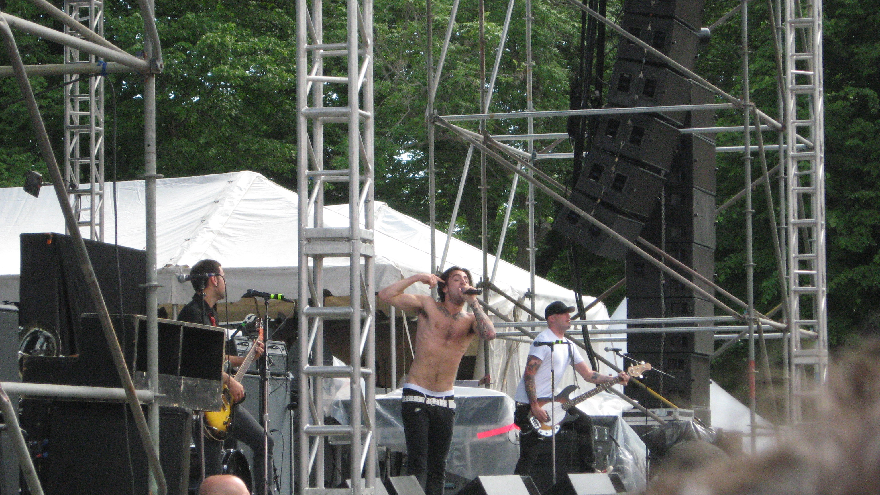 Jacob Hoggard of Hedley. This was from the Nickelback concert on Canada Day of 2007.